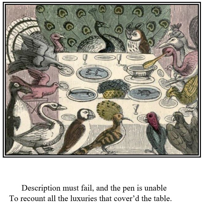 pg 5 "The Peacock 'at Home'" by A Lady